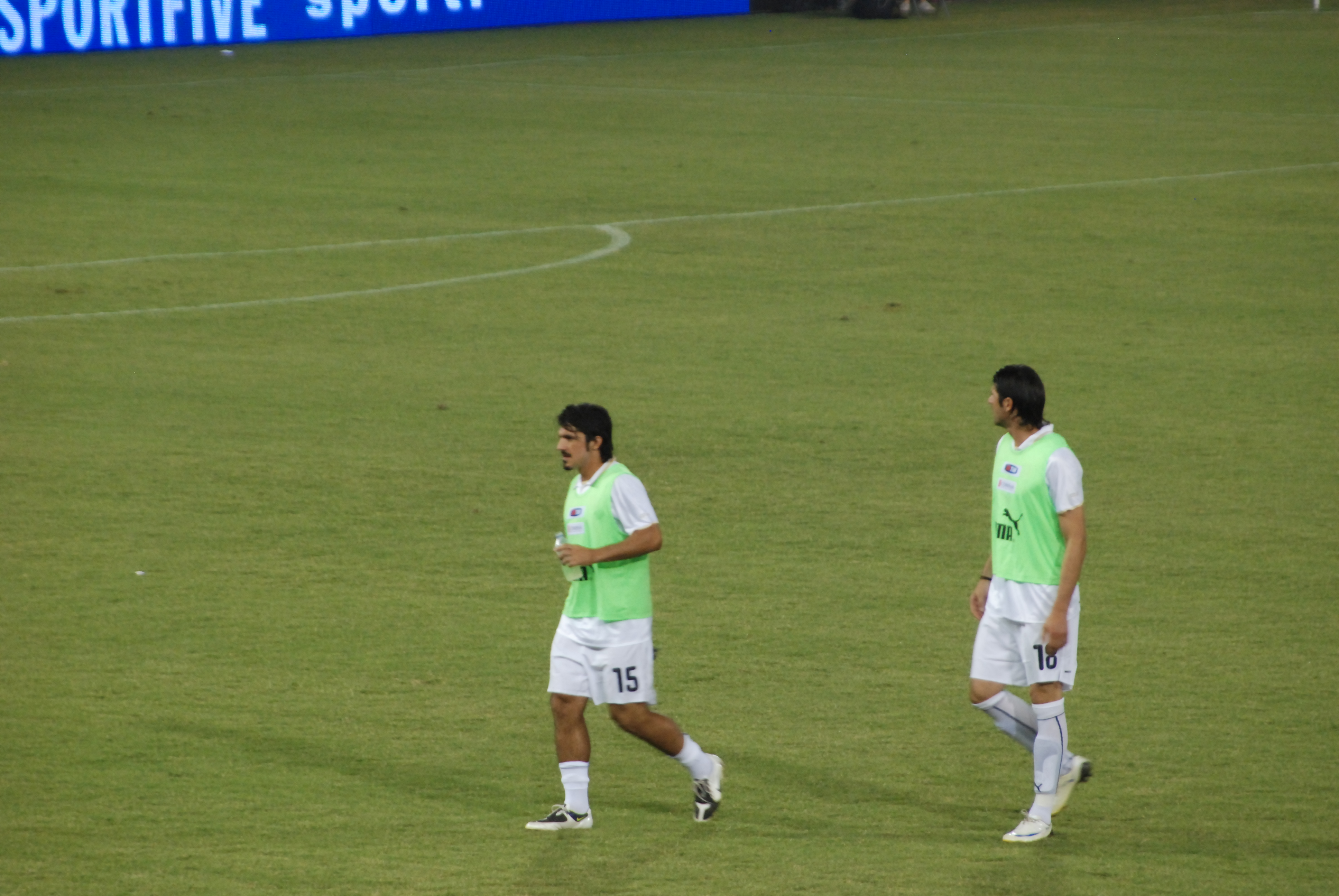 Gennaro Gattuso and Vincenzo Iaquinta during Cyprus-Italy